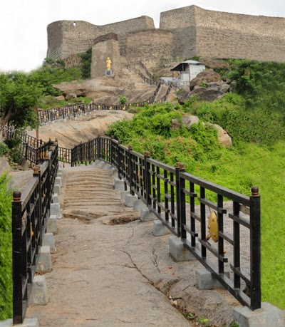 The Steps have been renovated during 2005 Stambhadri Sambaralu due to the initiation of then Tourism Minister Ms.Renuka Chowdary.